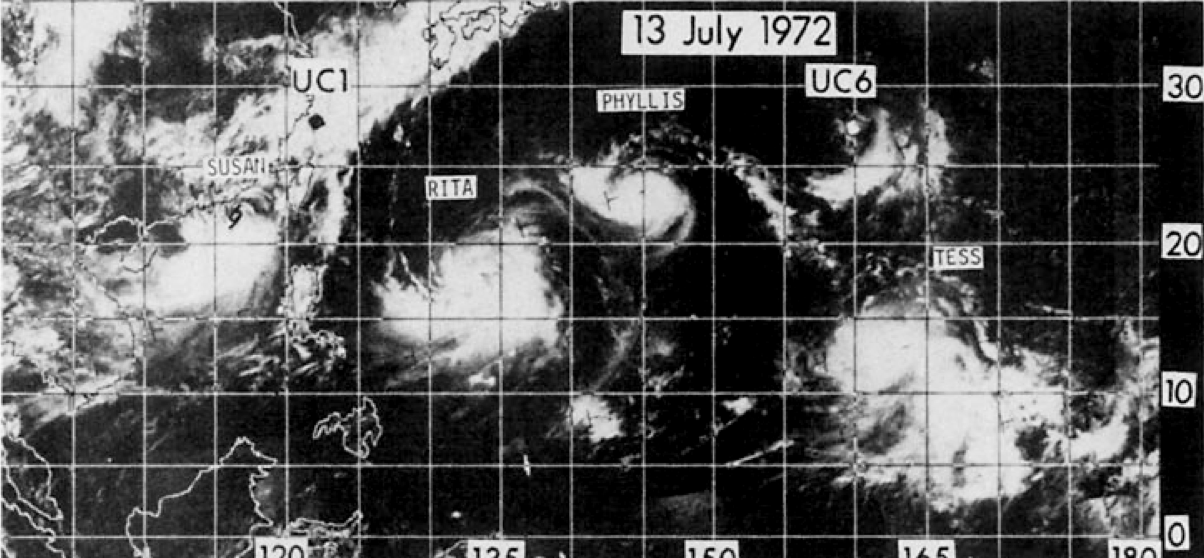 Montage of five concurrent typhoons over the Western Pacific on July 13, 1972